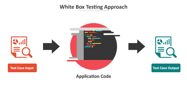 This image depicts the white box testing process.